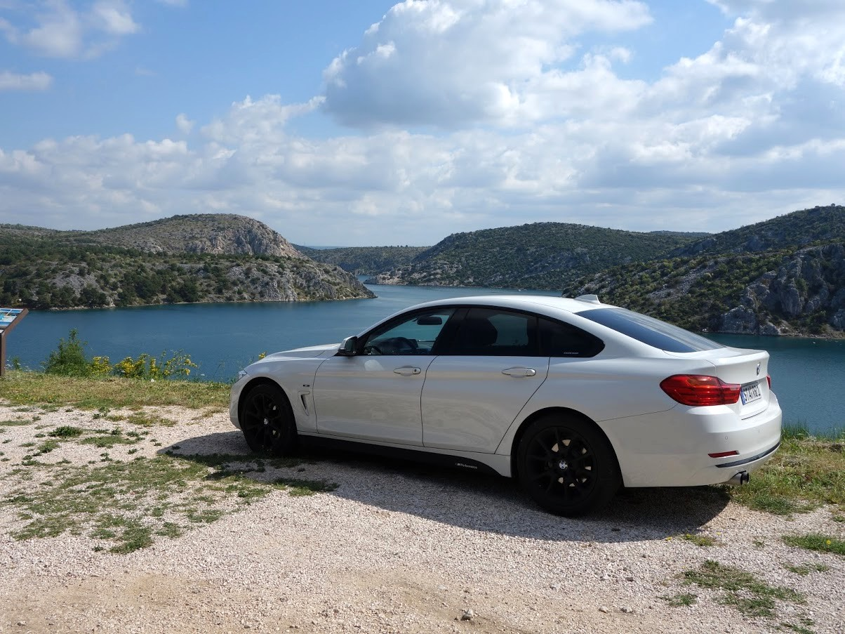 BMW 420d Gran Coupé (F36)